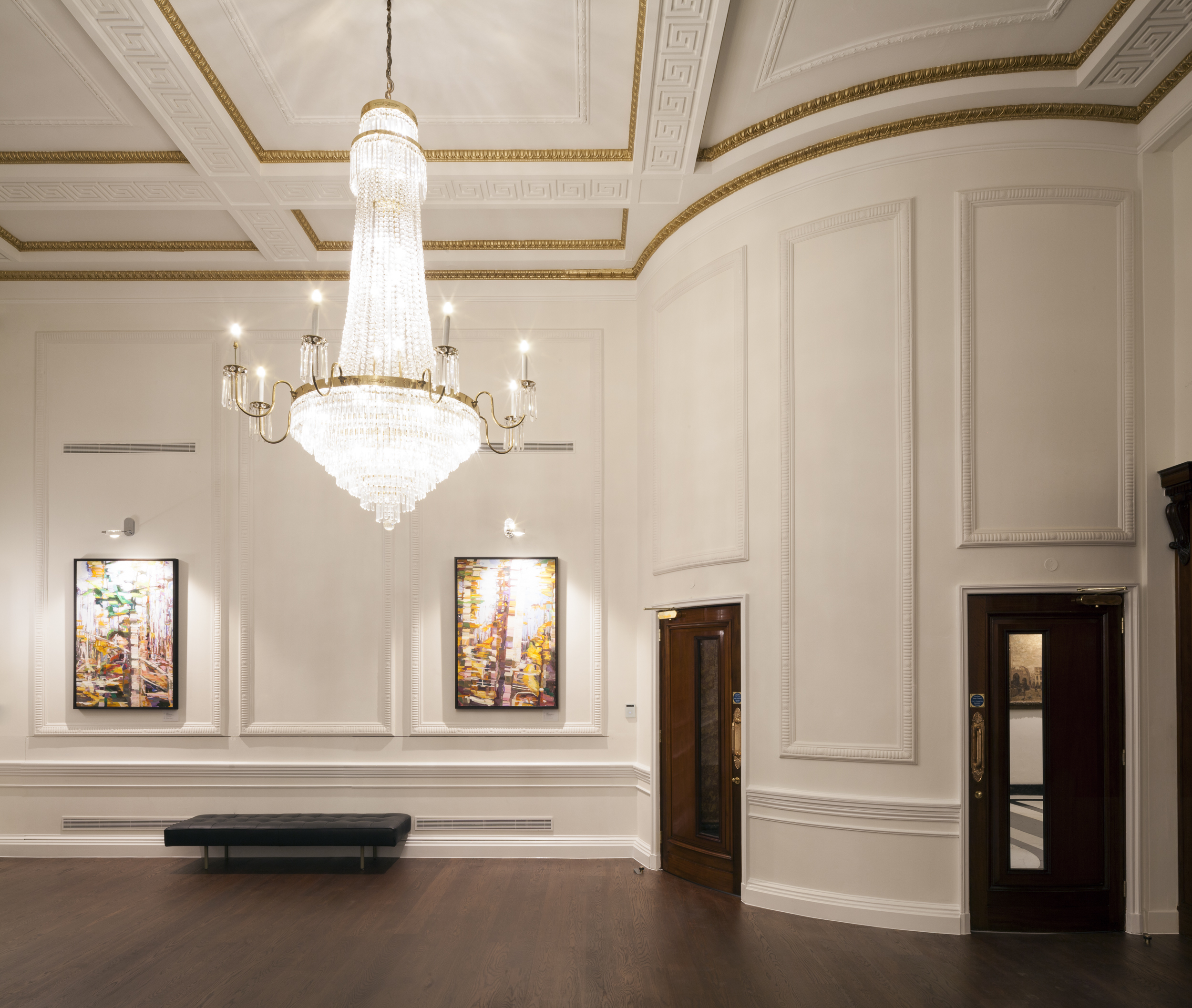 Main reception room, Canada House